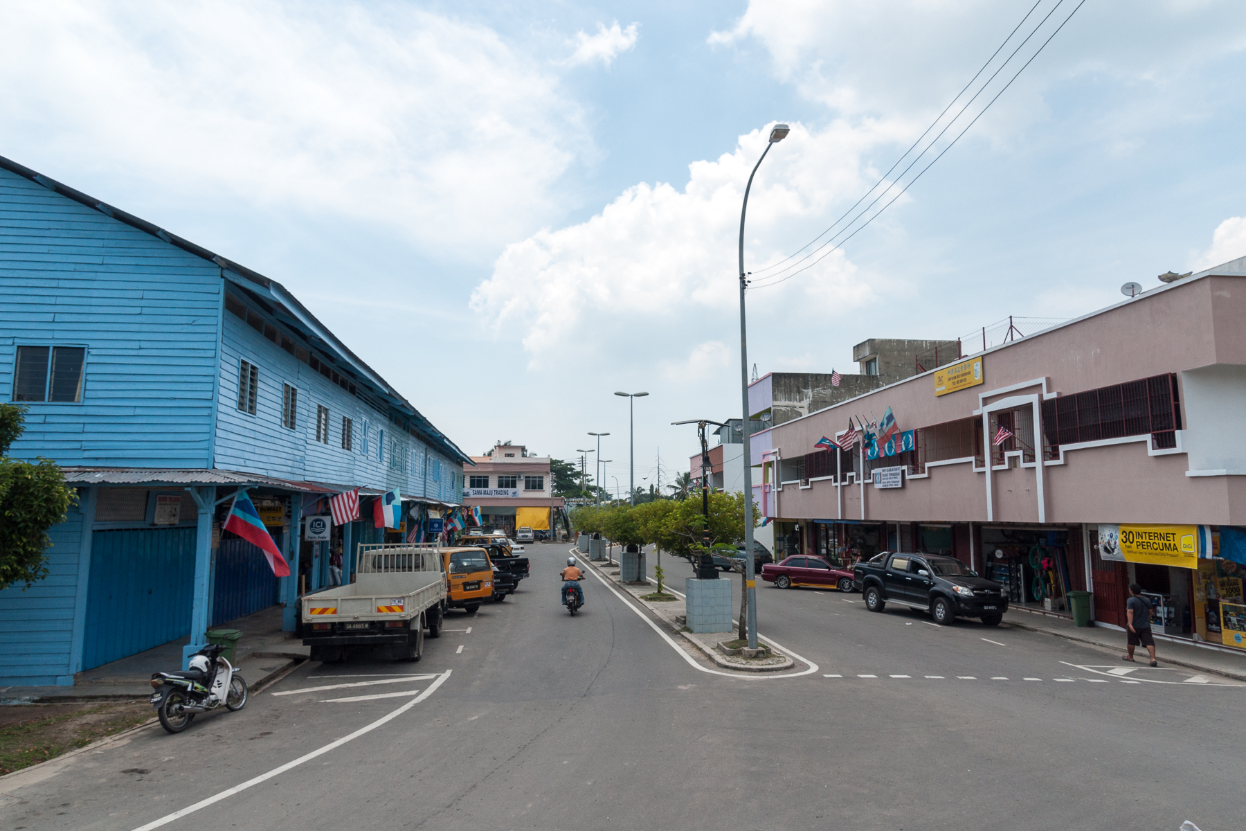 Kuala Penyu, Sabah: Town Center)